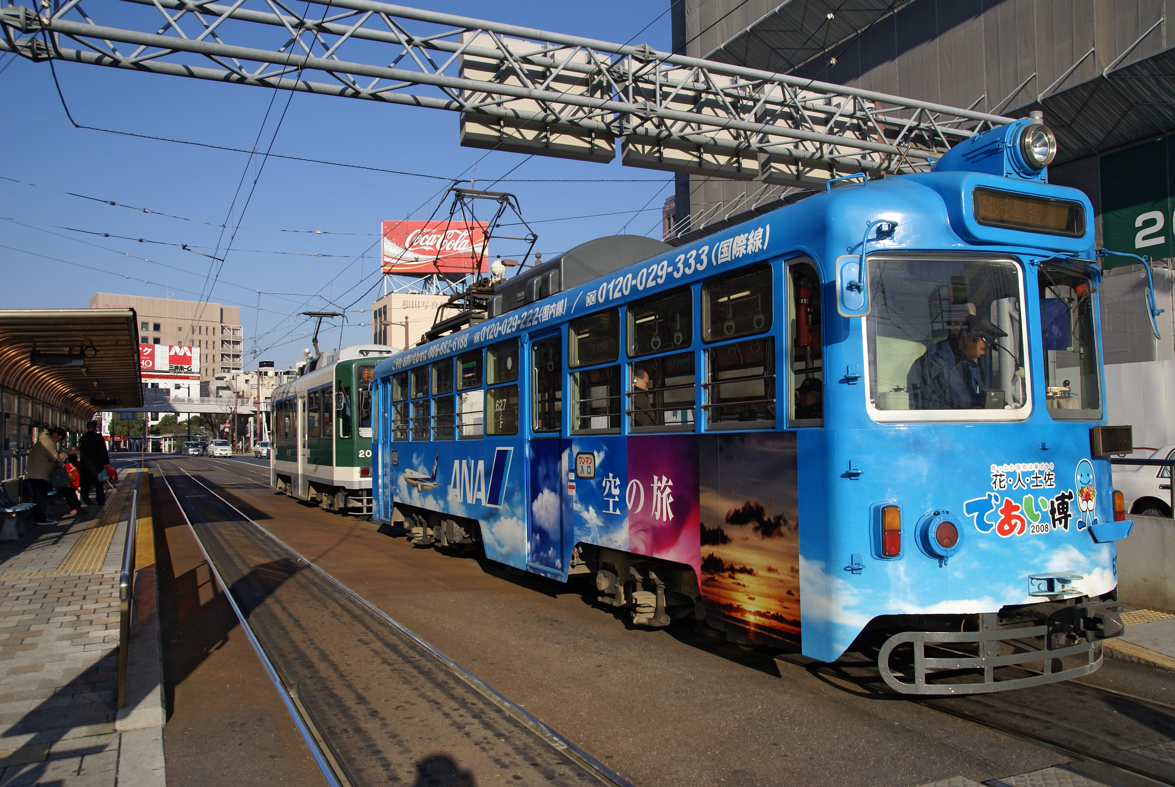 Harimayabashi Station in Kochi, Kochi prefecture, Japan